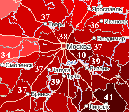 High temperatures in Moscow region